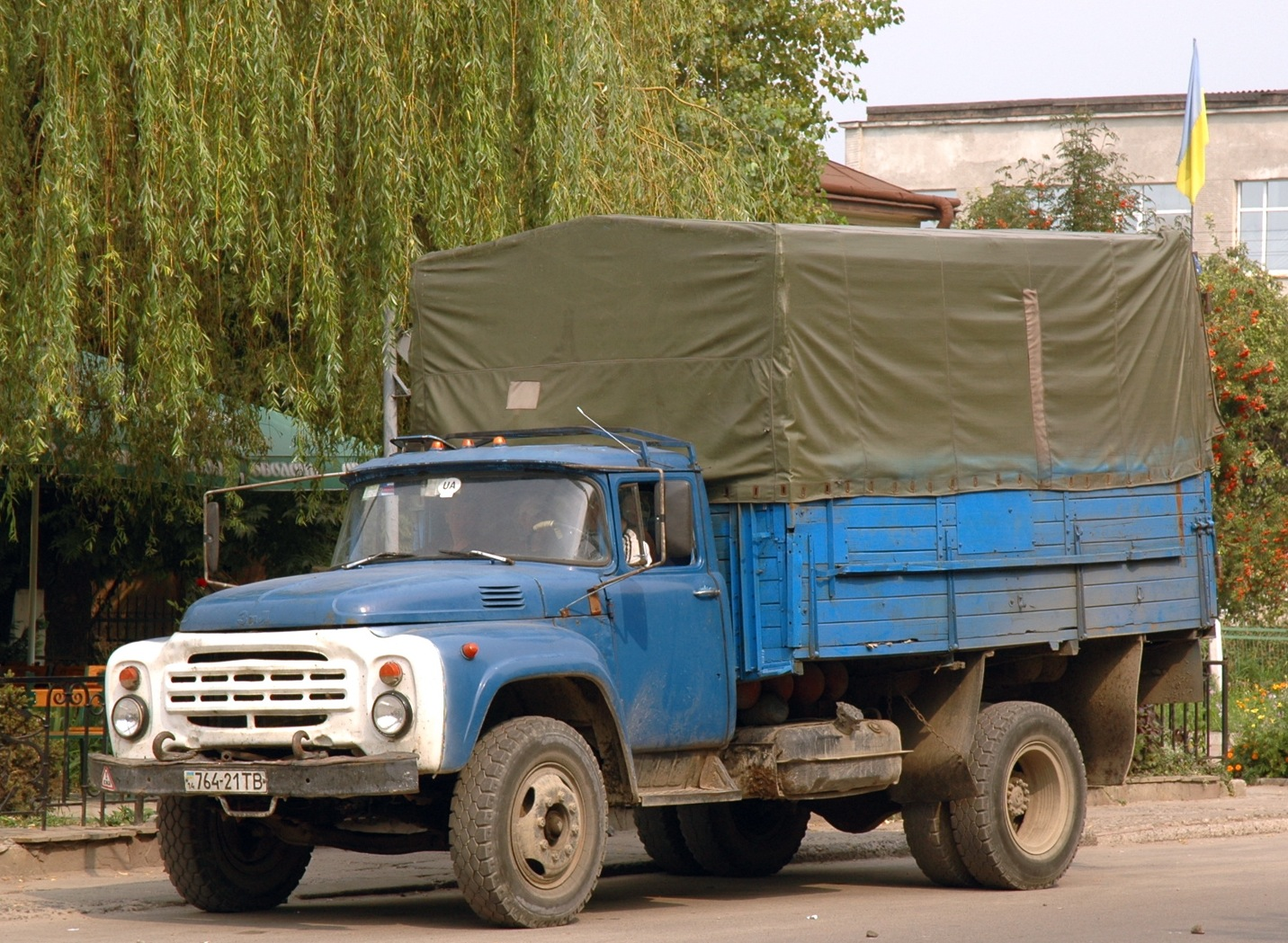 ZiL-130 in Zhovkva (Lviv oblast, Ukraine)